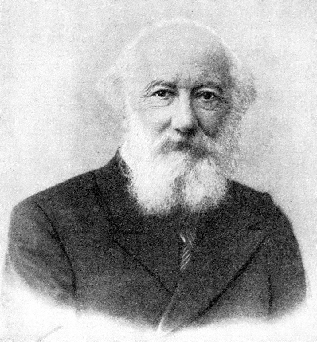 Chemist, academician N. N. Beketov